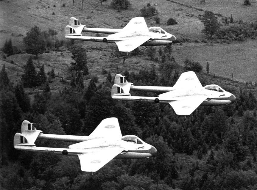 Original three de Havilland Vampire aircraft of the Royal Canadian Air Force Blue Devils aerobatic team. The Blue Devils belonged to No. 410 Squadron.